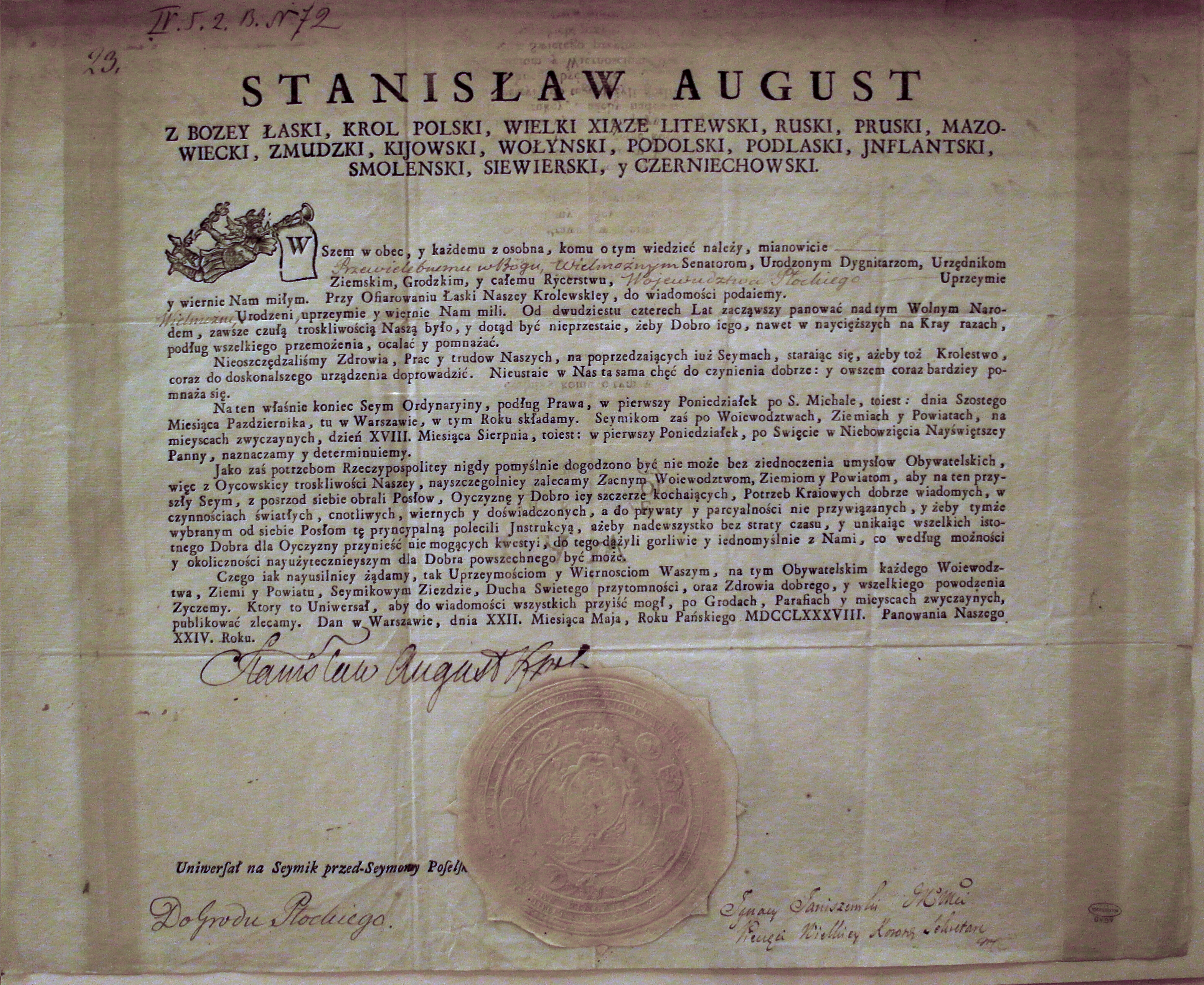 Royal universal convening the Sejm to Warsaw 1788